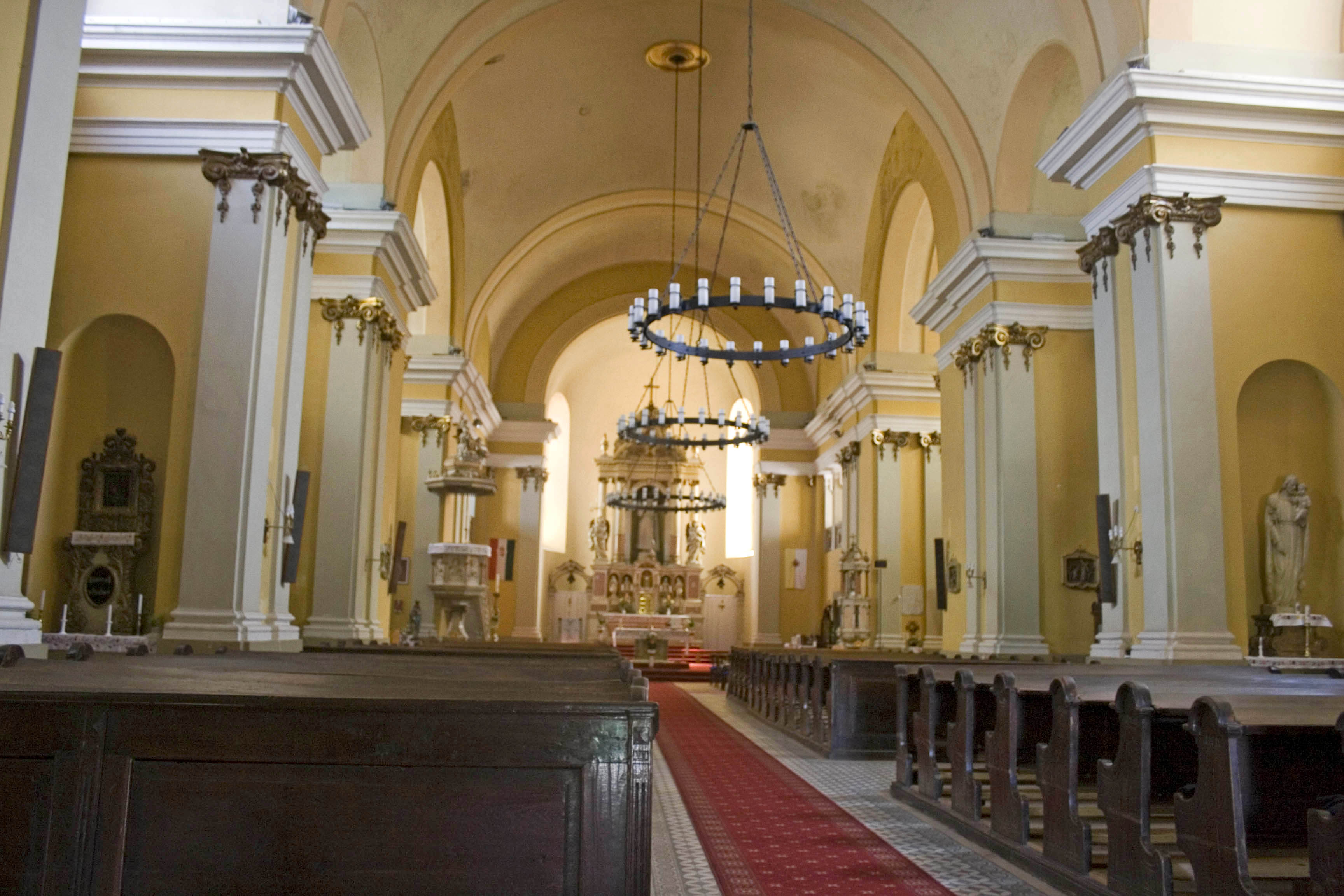 Hungary - Sátoraljaújhely - Saint Stephen's Church interior